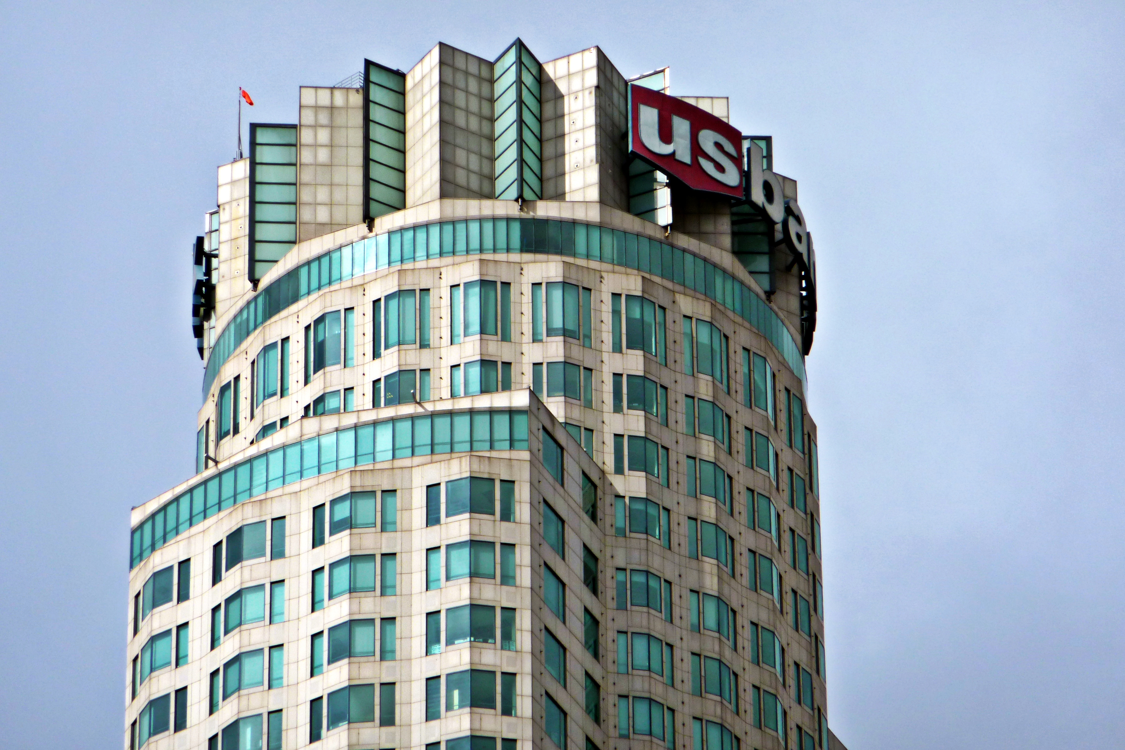 Library Tower, Los Angeles, CA, USA